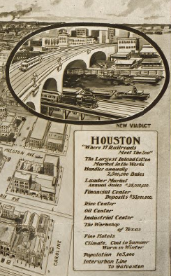 Inset from birdeye's map of Houston, 1912. "Houston: Where 17 Railroads Meet the Sea."